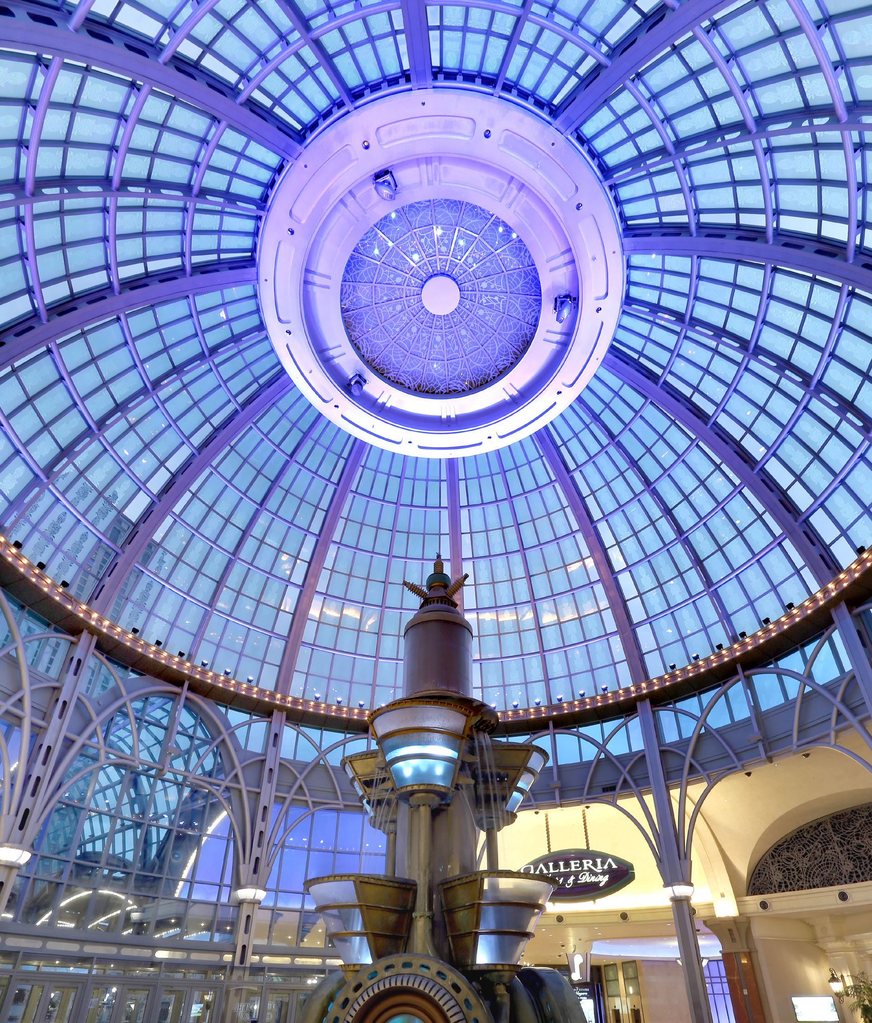 Main Entry & Fountain